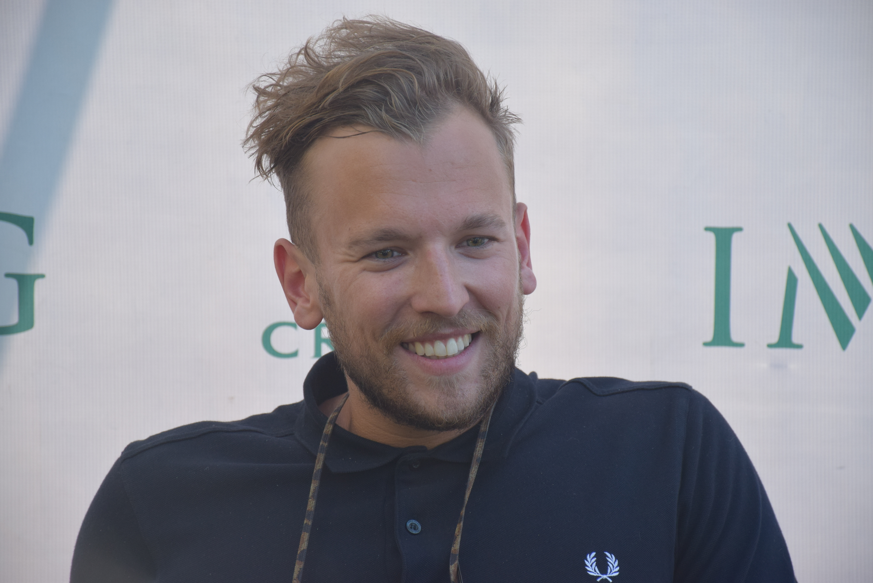 Dylan Alcott (Australia)